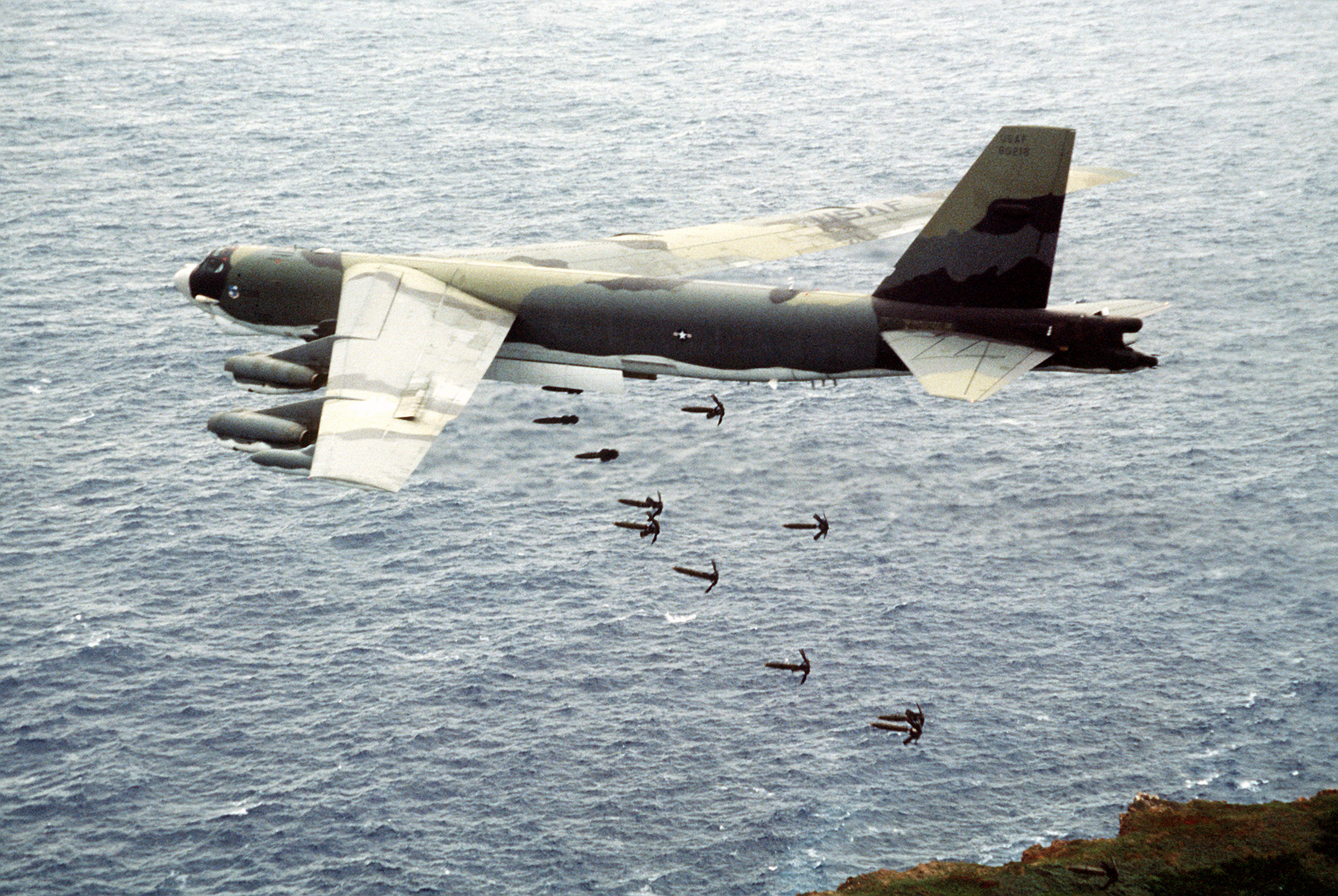 A U.S. Air Force Boeing B-52G-105-BW Stratofortress (s/n 58-0218) aircraft of the 60th Bombardment Squadron, 43d Strategic Wing, dropping Mark 82 227 kg high-drag bombs over the Farallon de Medinilla Island Bombing Range, Marianas Islands, during exercise "Harvest Coconut". The 43rd SW was stationed at Andersen Air Force Base, Guam (USA).